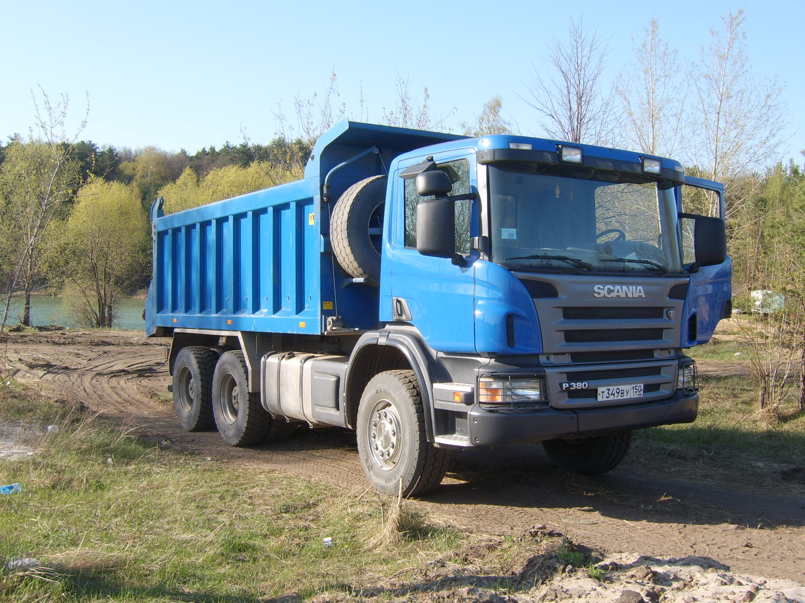 Tipper lorry in Russia.